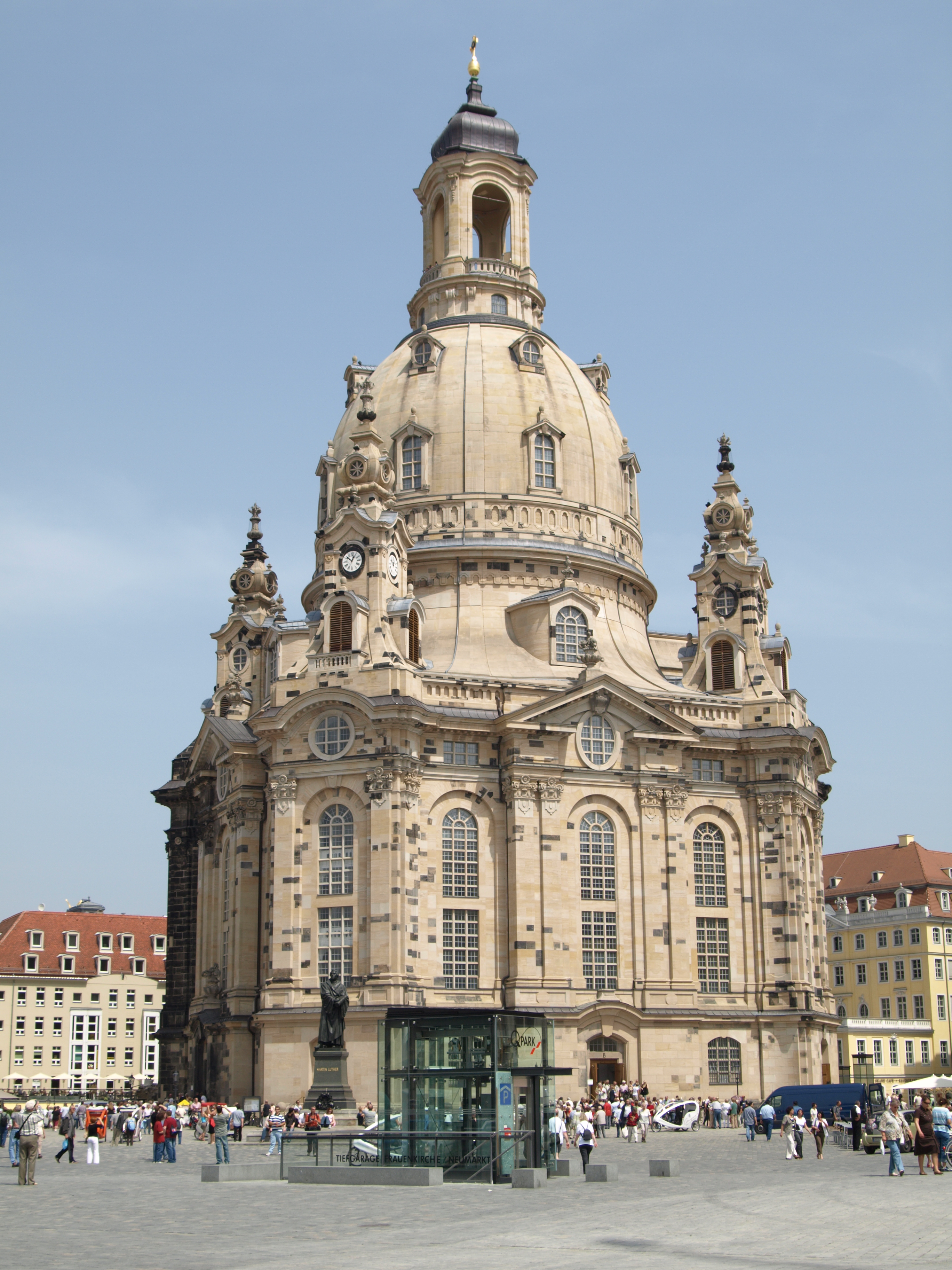 The "Frauenkirche" on May 29th 2008 from South with Martin Luther Statue and Entrance to Parking Garage in the foreground